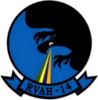 Insignia of the U.S. Navy Reconnaissance Heavy Attack Squadron 14 (RVAH-14) "Eagles".